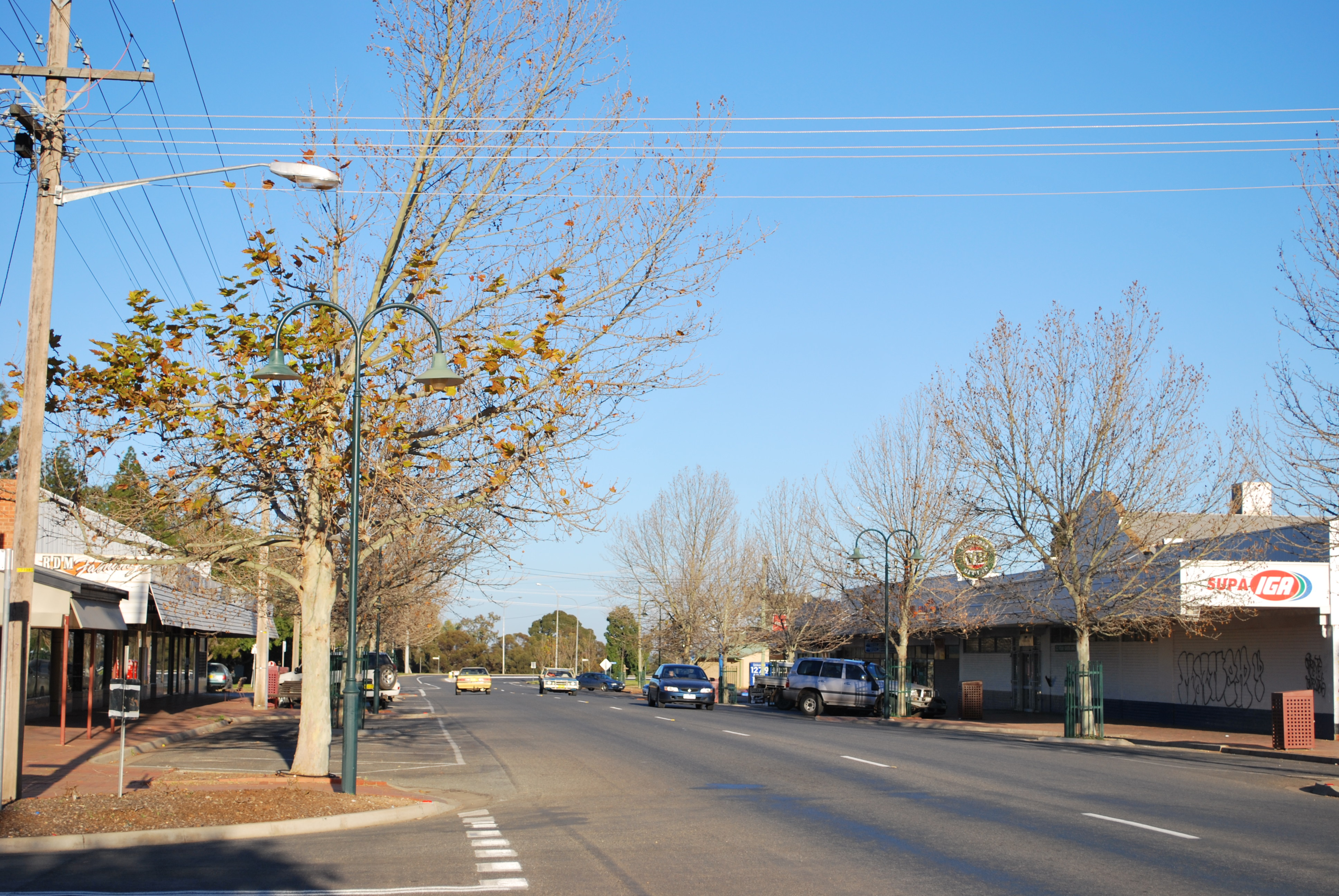 Tapio Avenue (Silver City Highway) at Dareton, New South Wales